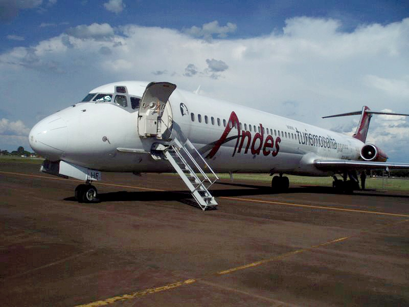 McDonnell Douglas MD-82, Photo taken at the airport in Ponta Pora, a day after an Argentine plane had made an emergency landing at the airport.